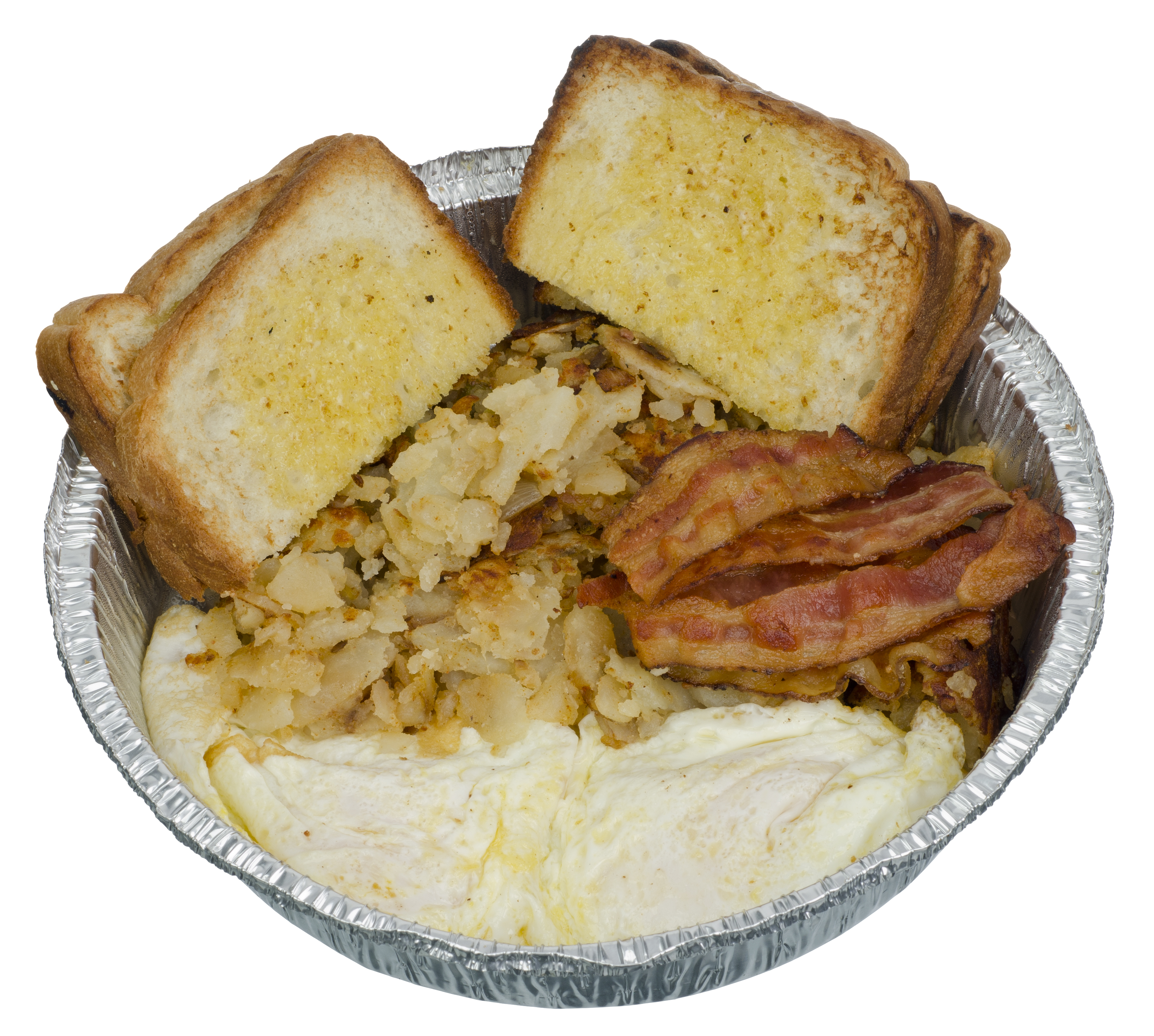 A diner breakfast in a to-go container. This came from a diner in Brooklyn, New York, where round foil containers are common to-go holders. This is has two overeasy eggs, bacon, home fries and buttered toast.